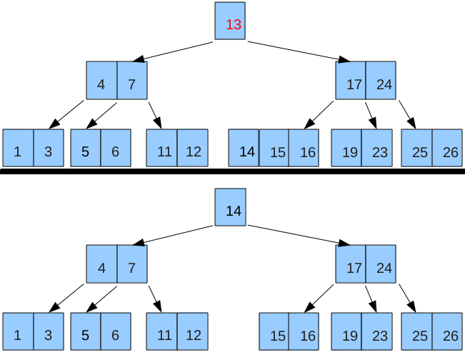 Delete key from B tree